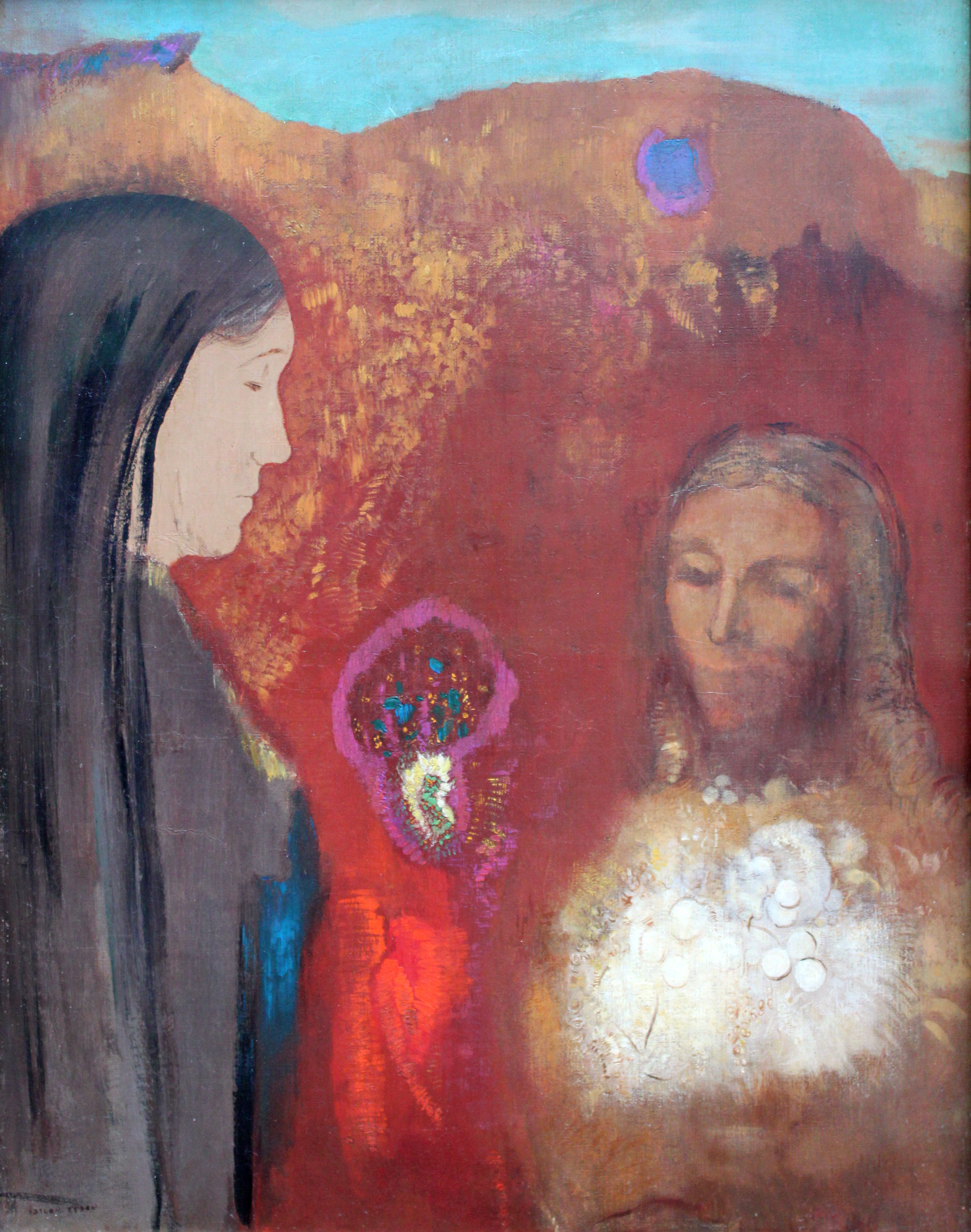 Christ and the Samaritan Woman (The White Flower Bouquet)